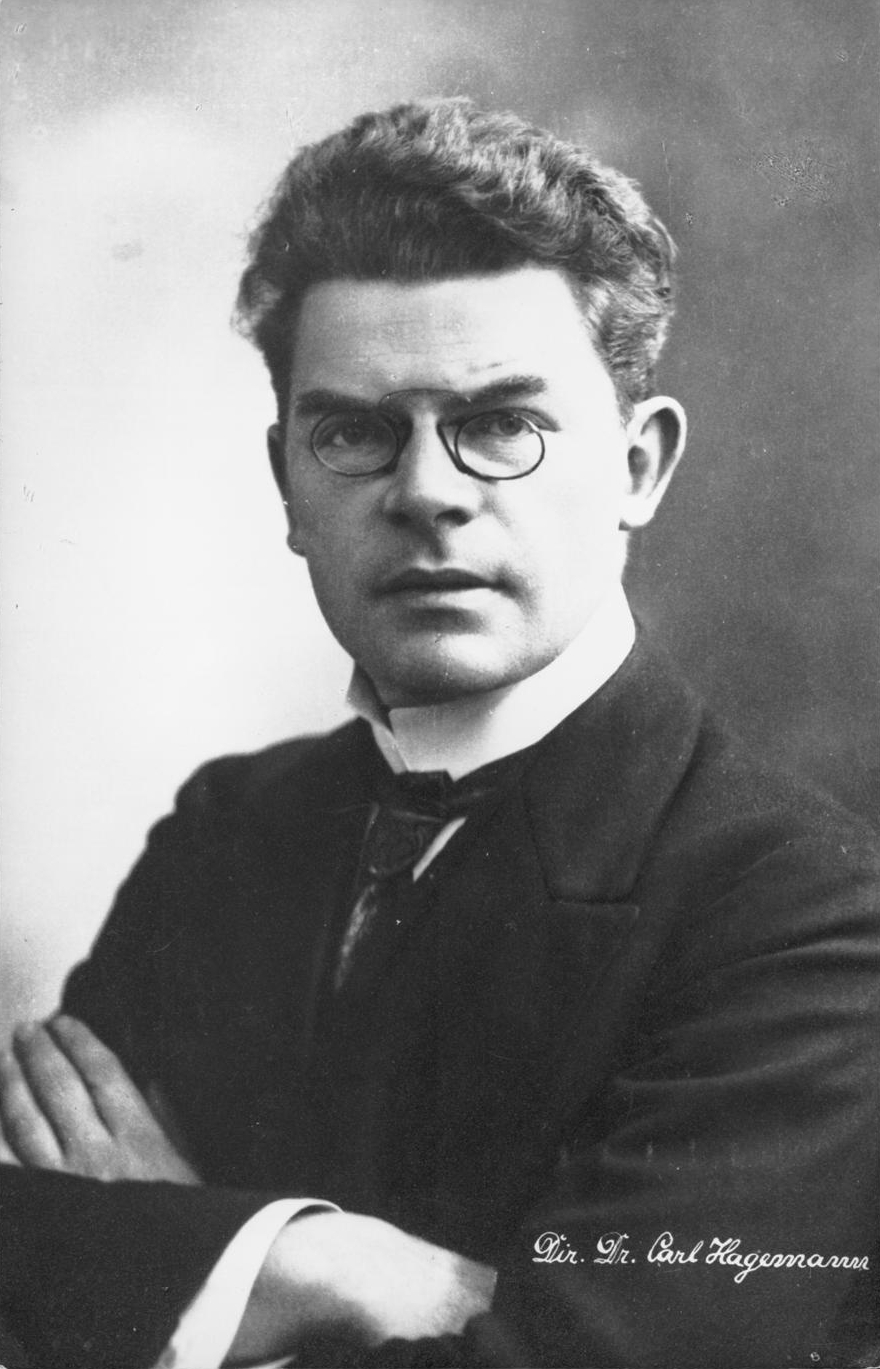 Carl Hagemann (1871–1945), German theater director and theatrologist.